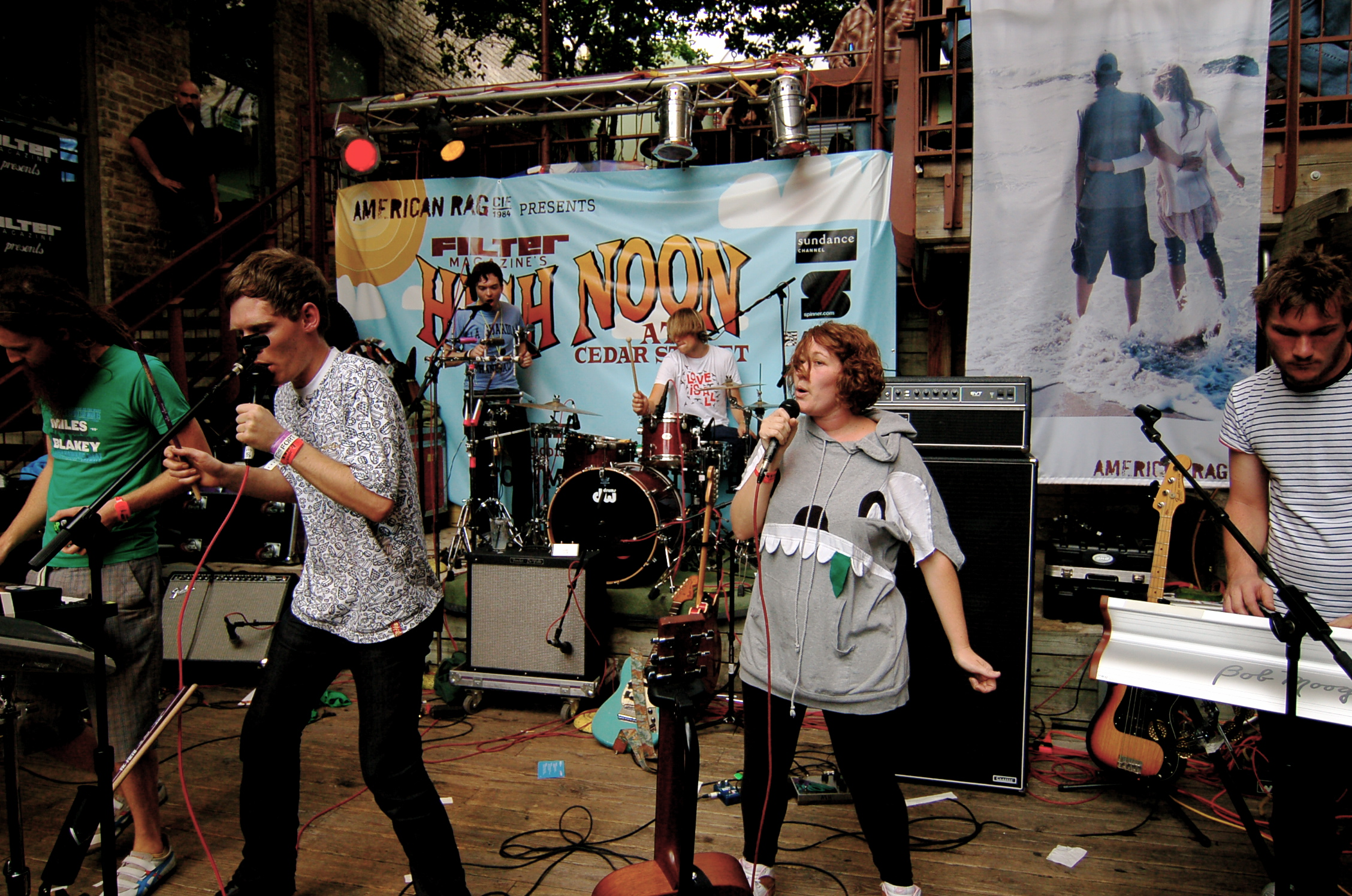 Architecture in Helsinki performing on March 16, 2007 in Central Campus, Austin, TX, US